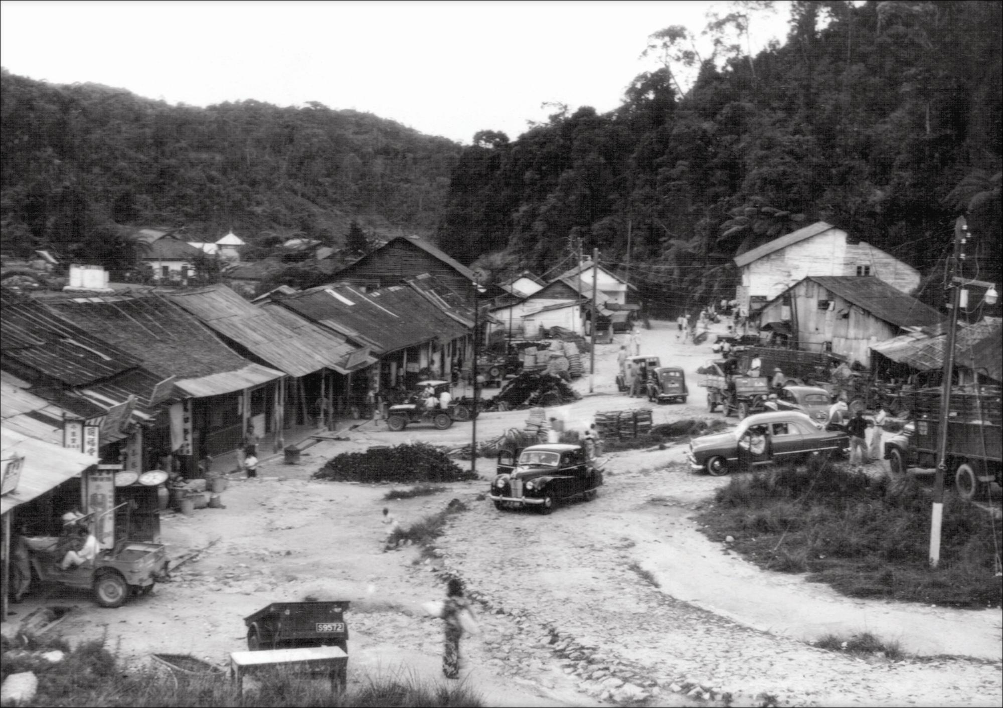 Brinchang, the Cameron Highlands, Pahang, West Malaysia (circa. 1950s).